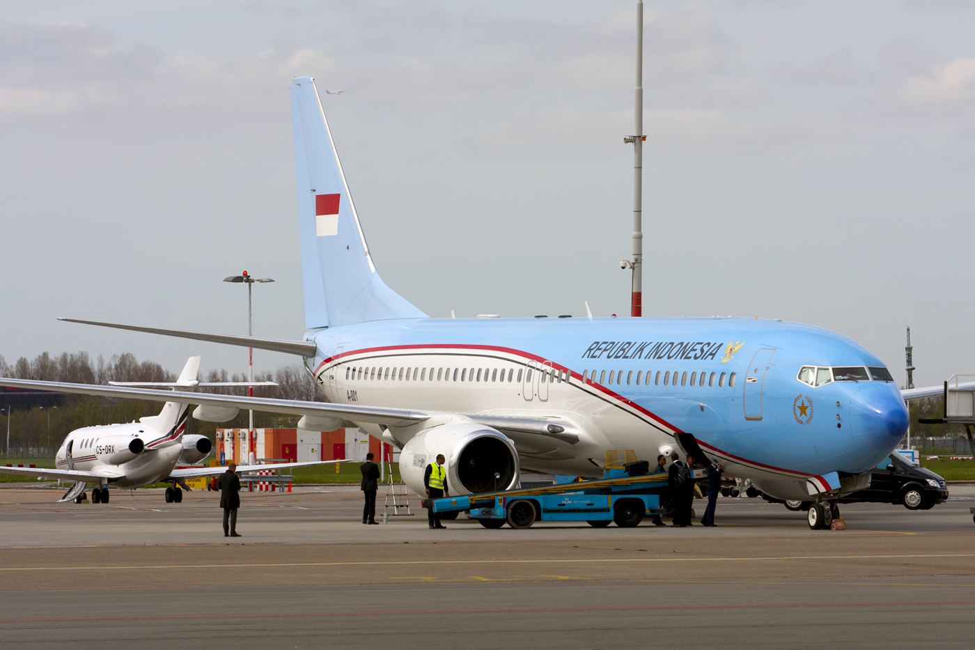 Amsterdam-Schiphol, 22 April 2016. Catch of the day. The Indonesian president Joko Widido is touring Europe and today he was in The Netherlands. A-001 is a Boeing 737-800 (more exactly a B737-8U3 BBJ2) that is based at Jakarta with Skadron Udara 17. My first military plane from Indonesia. Joy!